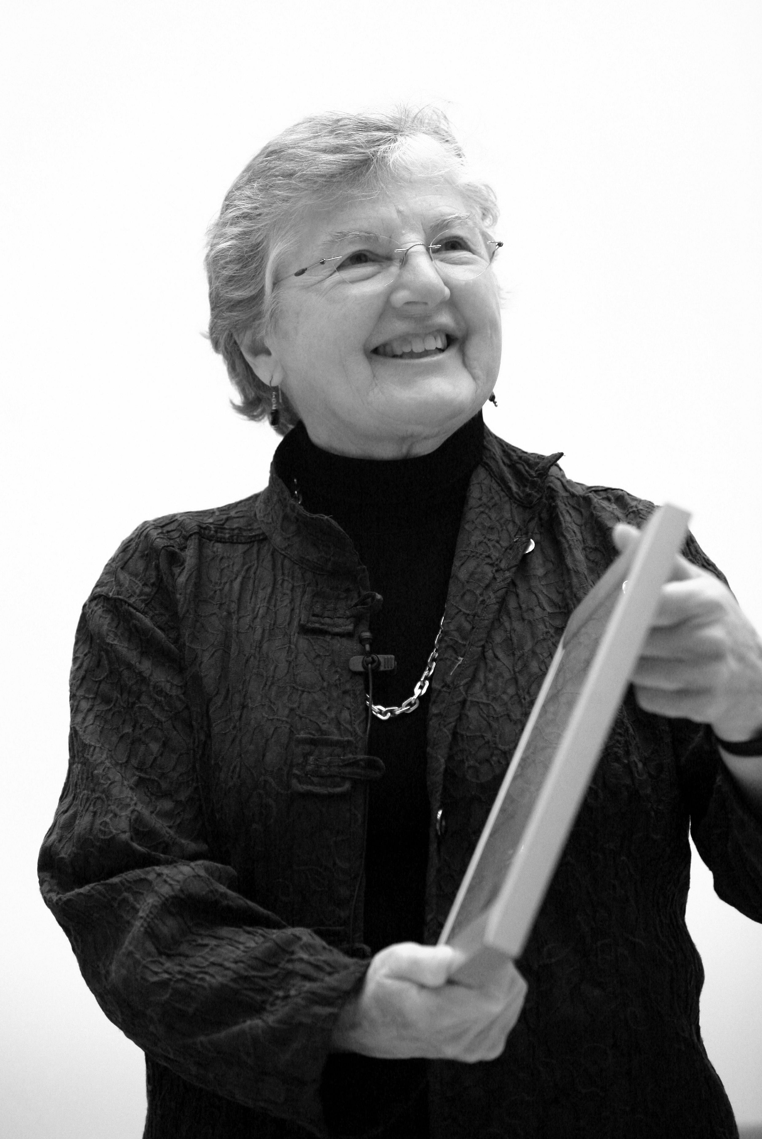 Frances E. Allen recieving the Erna Hamburger Distinguished Lecture Award at the EPFL